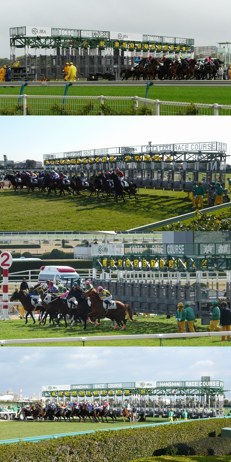 Starting-gate(JRA)